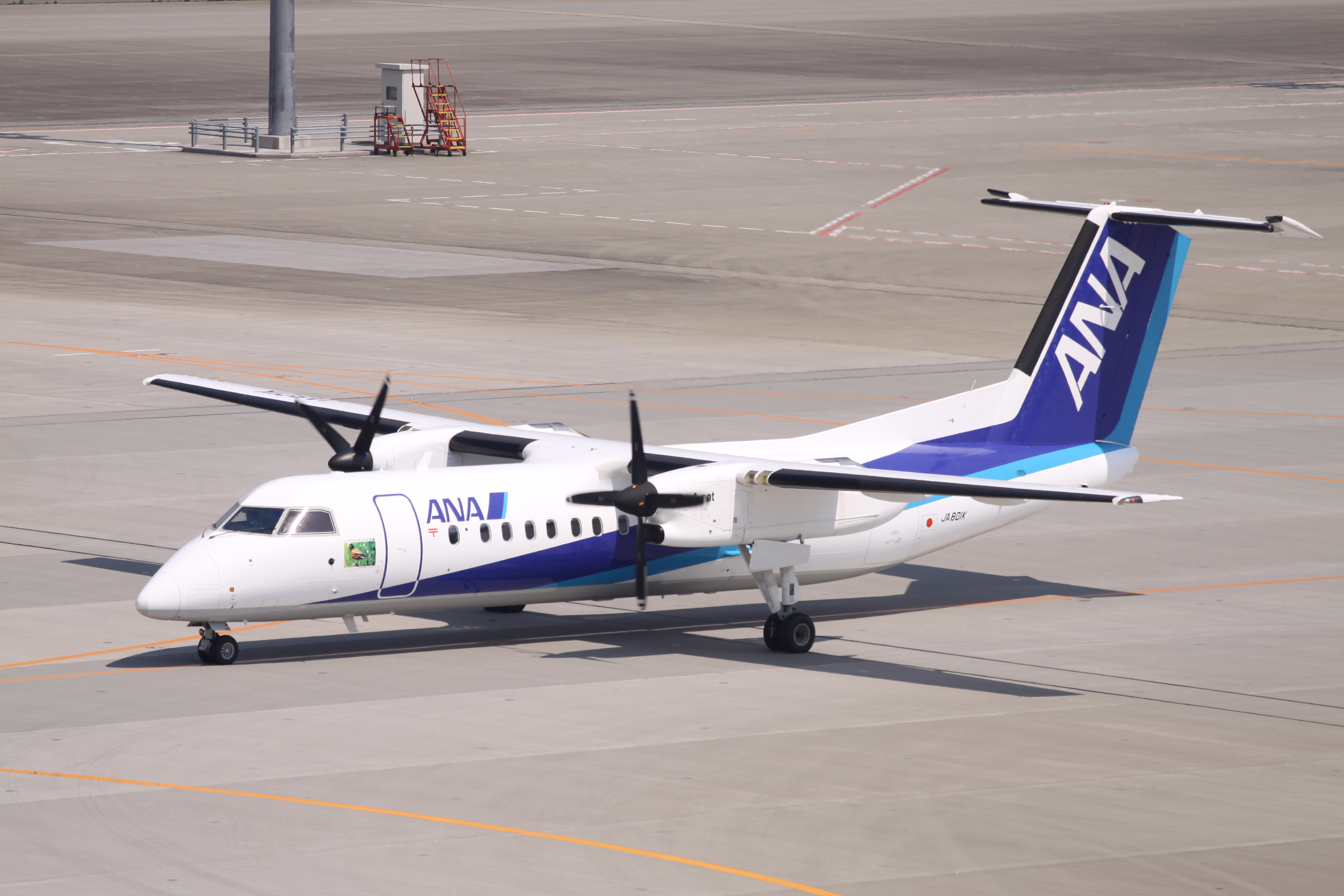 ANA Bombardier DHC8-300(JA801K)